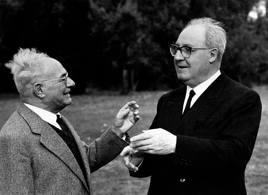 Portrait of Italian journalist and writer Vittorio Giovanni Rossi with the President of the Italian Republic Giuseppe Saragat. Castel Porziano, December 1965